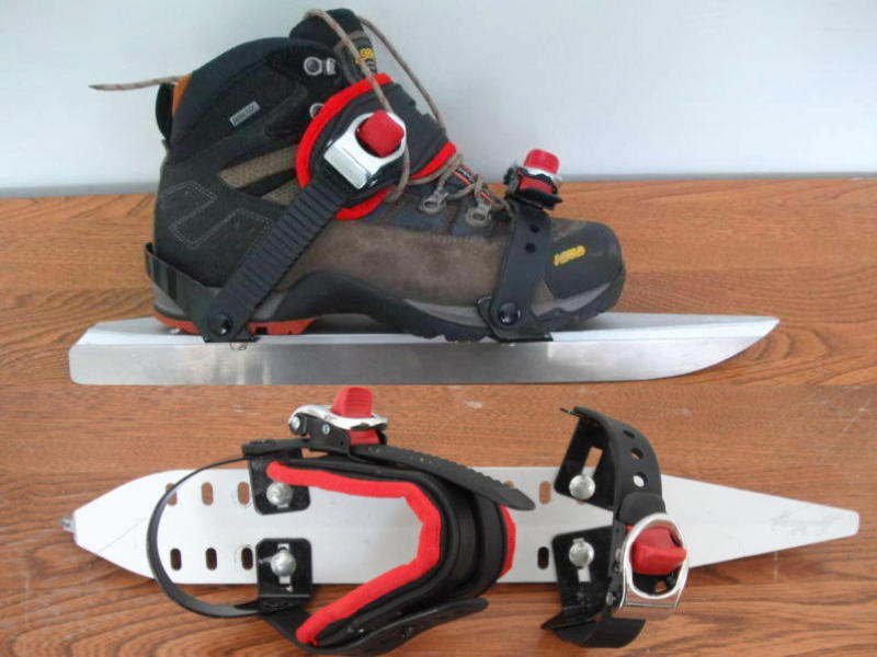 Multiskates; Long distance touring skates for hiking boots